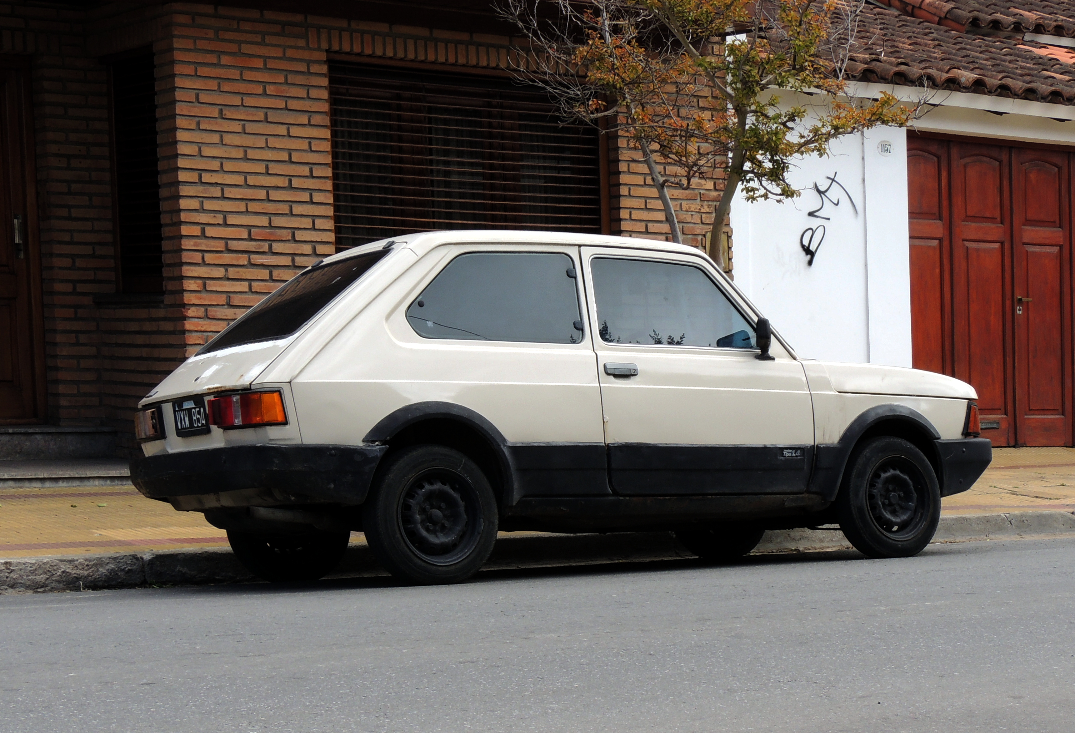 Fiat Spazio parked in Tandil, Argentina